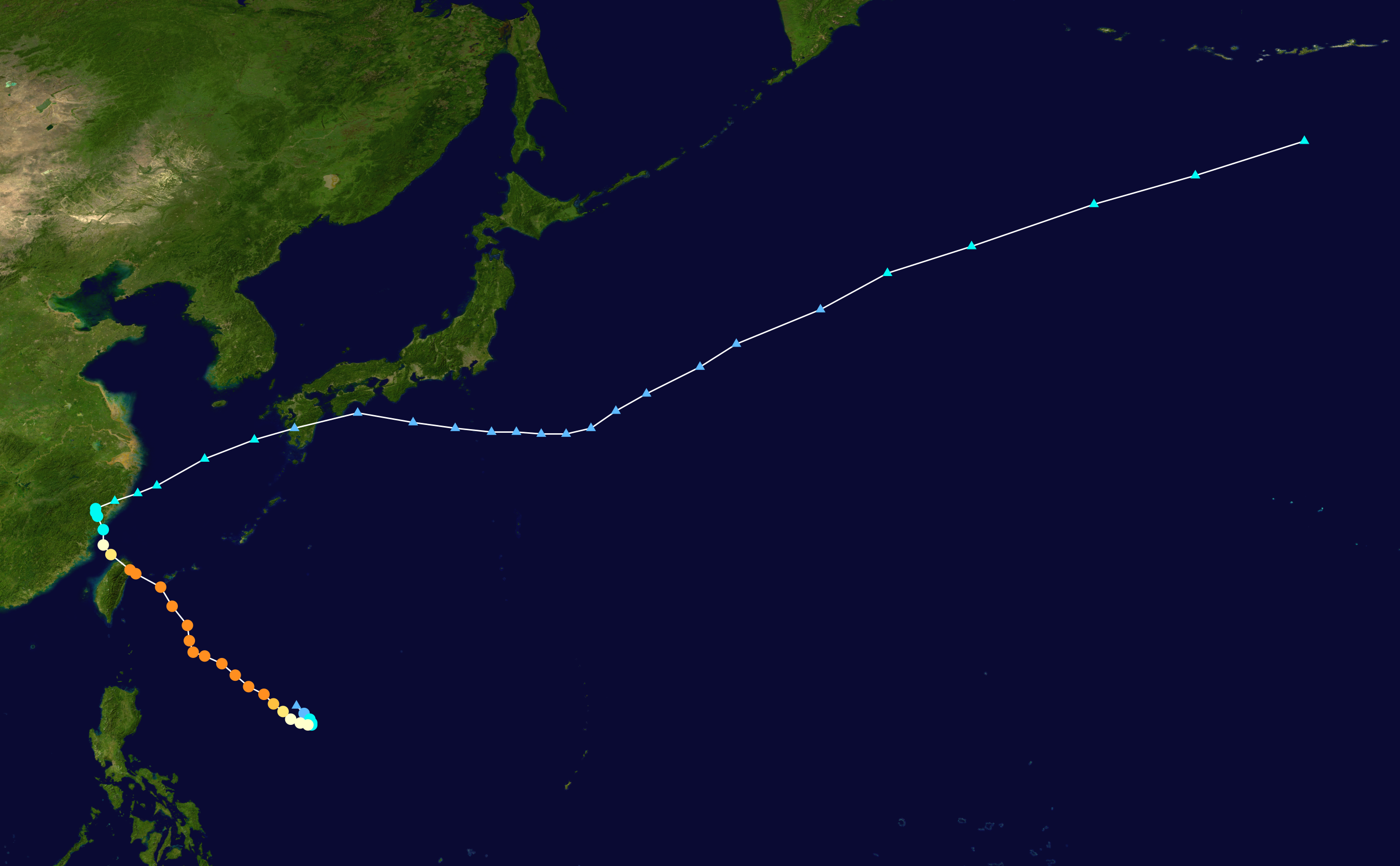 Track map of Typhoon Krosa of the 2007 Pacific typhoon season. The points show the location of the storm at 6-hour intervals. The colour represents the storm's maximum sustained wind speeds as classified in the Saffir–Simpson scale (see below), and the shape of the data points represent the nature of the storm, according to the legend below. Saffir–Simpson scale Tropical depression≤38 mph≤62 km/h Category 3111–129 mph178–208 km/h Tropical storm39–73 mph63–118 km/h Category 4130–156 mph209–251 km/h Category 174–95 mph119–153 km/h Category 5≥157 mph≥252 km/h Category 296–110 mph154–177 km/h Unknown Storm type Tropical cyclone Subtropical cyclone Extratropical cyclone / Remnant low / Tropical disturbance / Monsoon depression